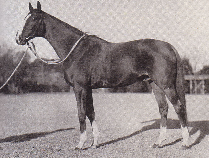 the 8th japanese derby winner kumohata